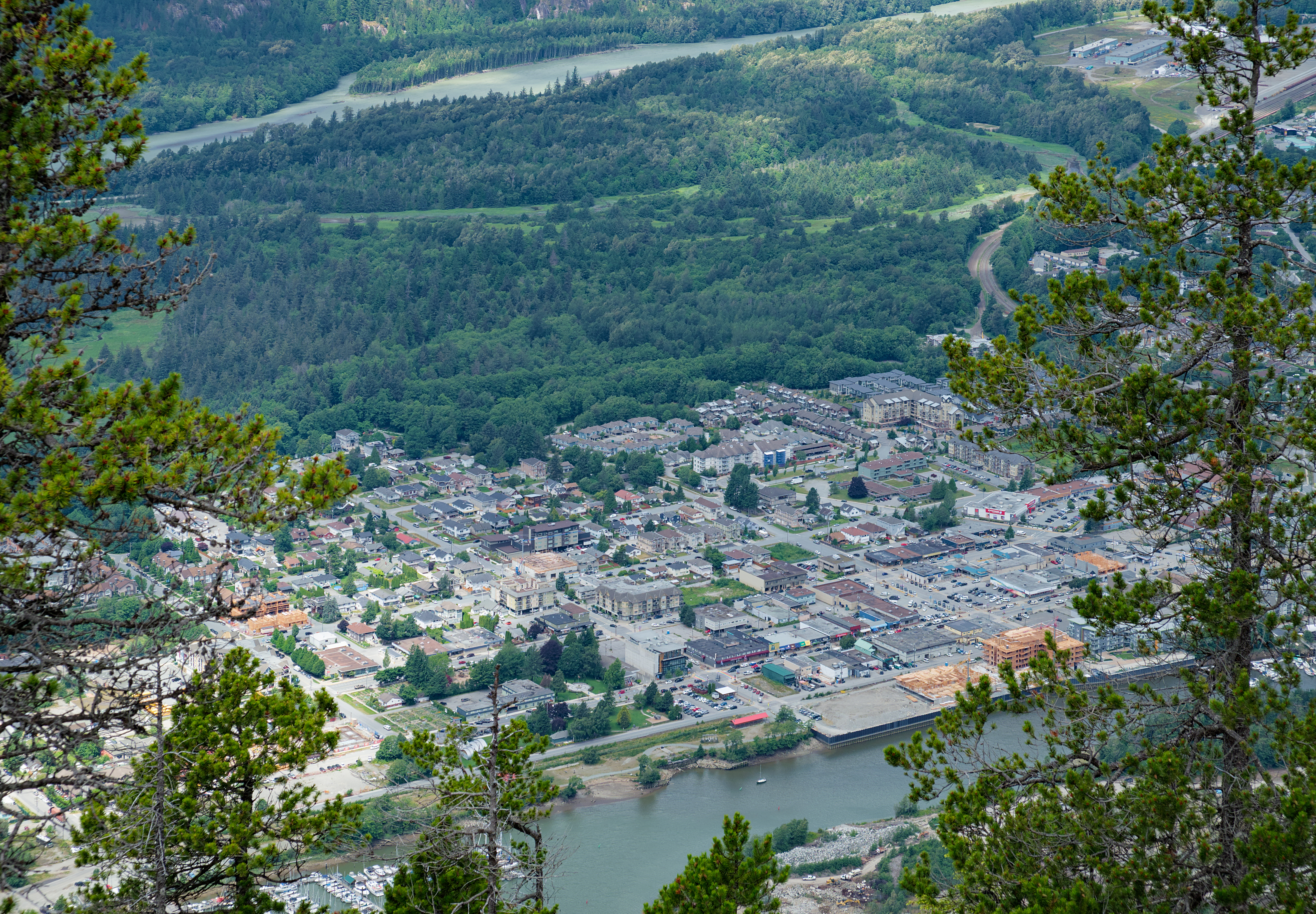 View of Squamish from the Chief Hike in Stawamus Chief Provincial Park, BC